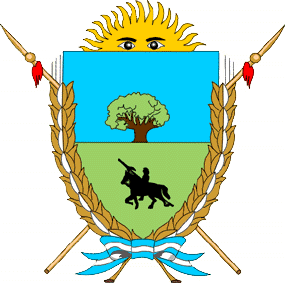 Coat of arms of La Pampa Province, Argentina.